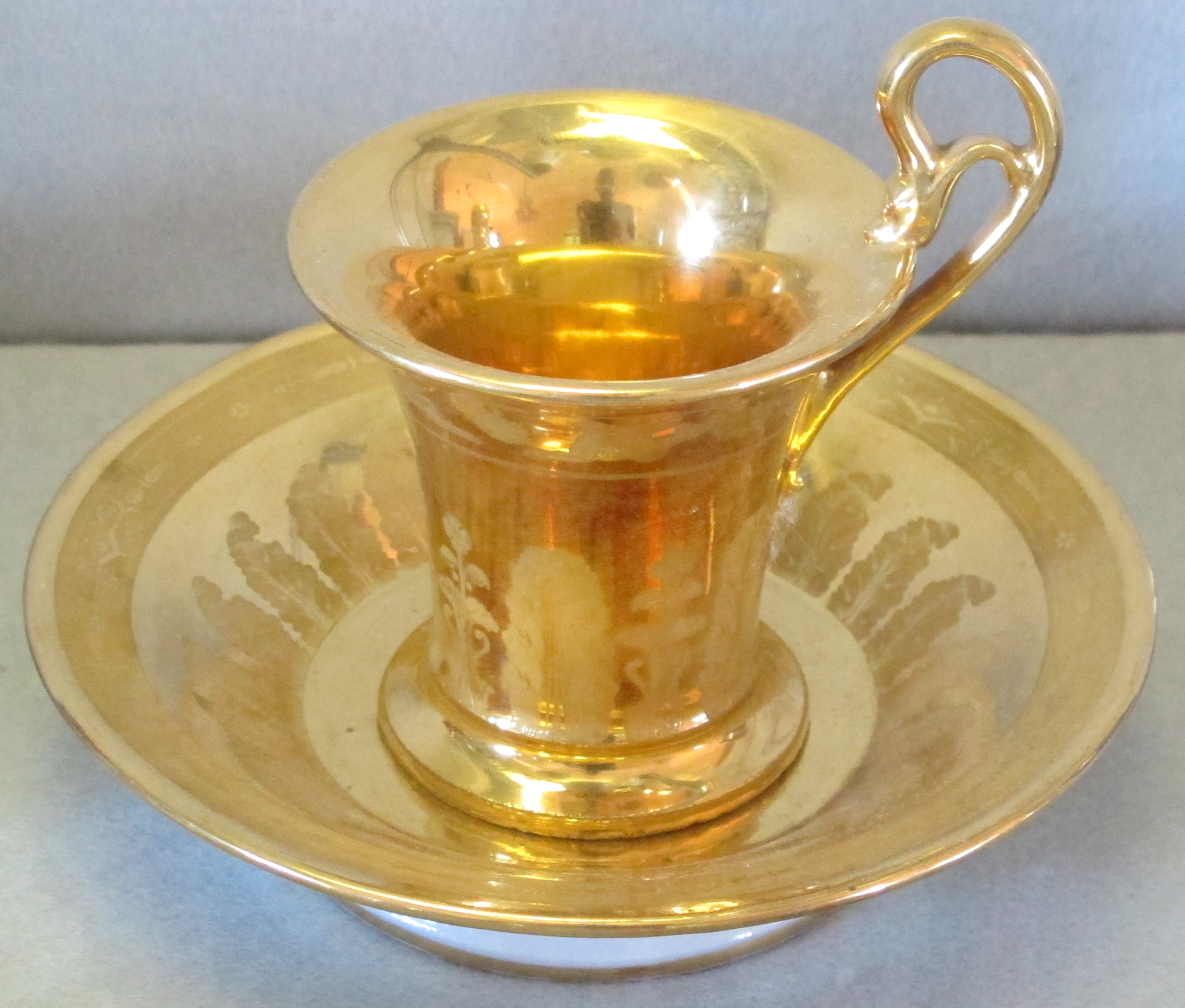 Nast porcelain